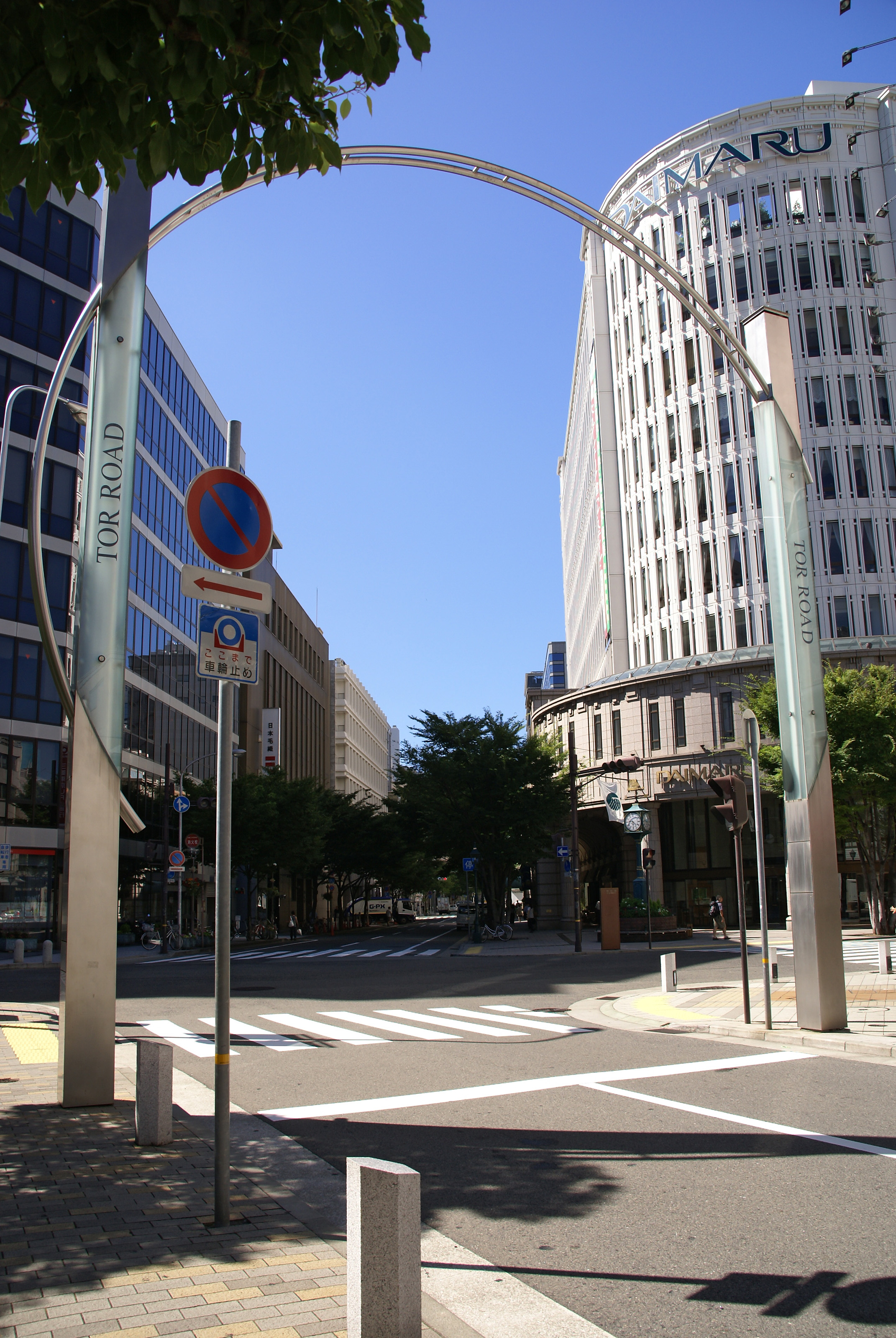 TOR ROAD in Kobe, Hyogo prefecture, Japan